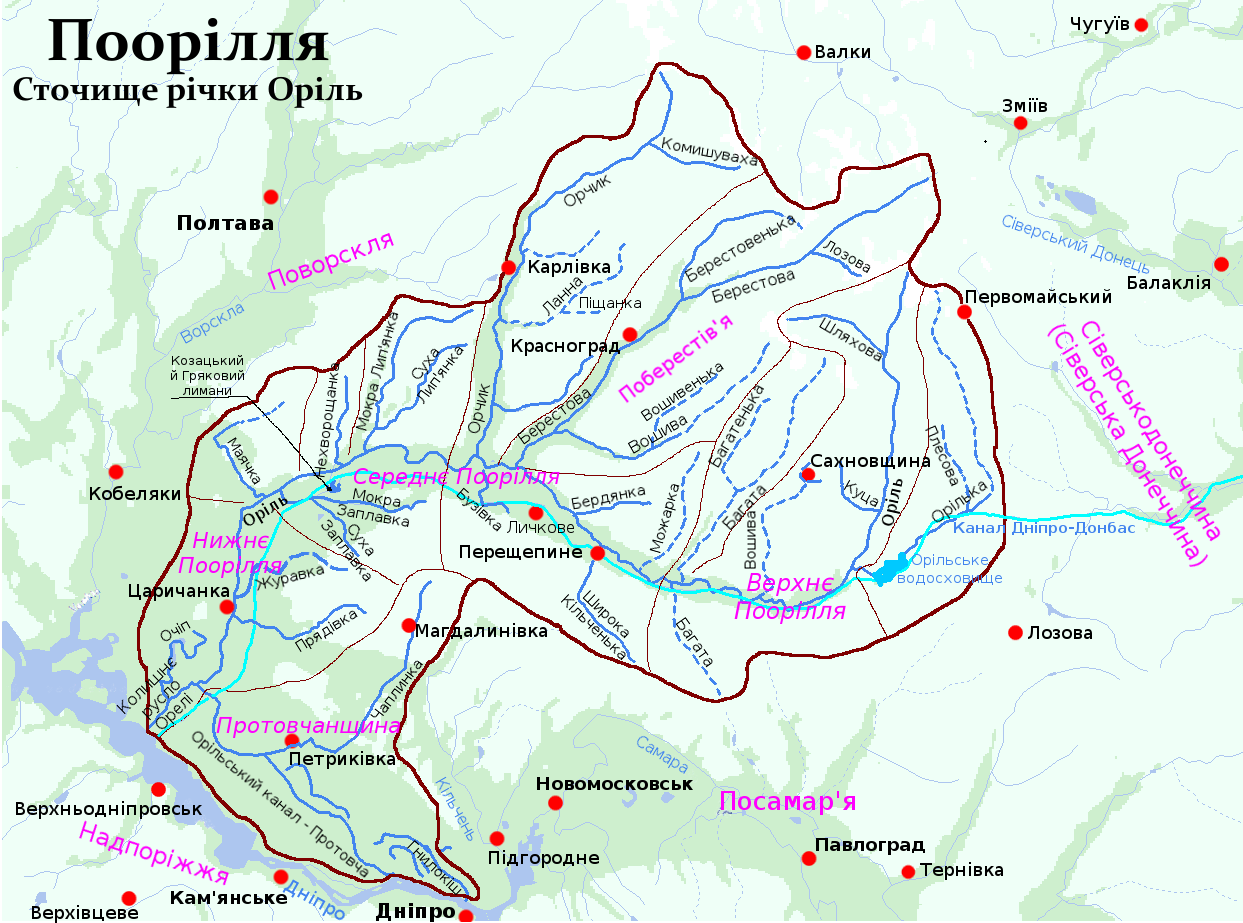 Ukrainian River Oril`. Histoiric Ukrainian region Poorillya.